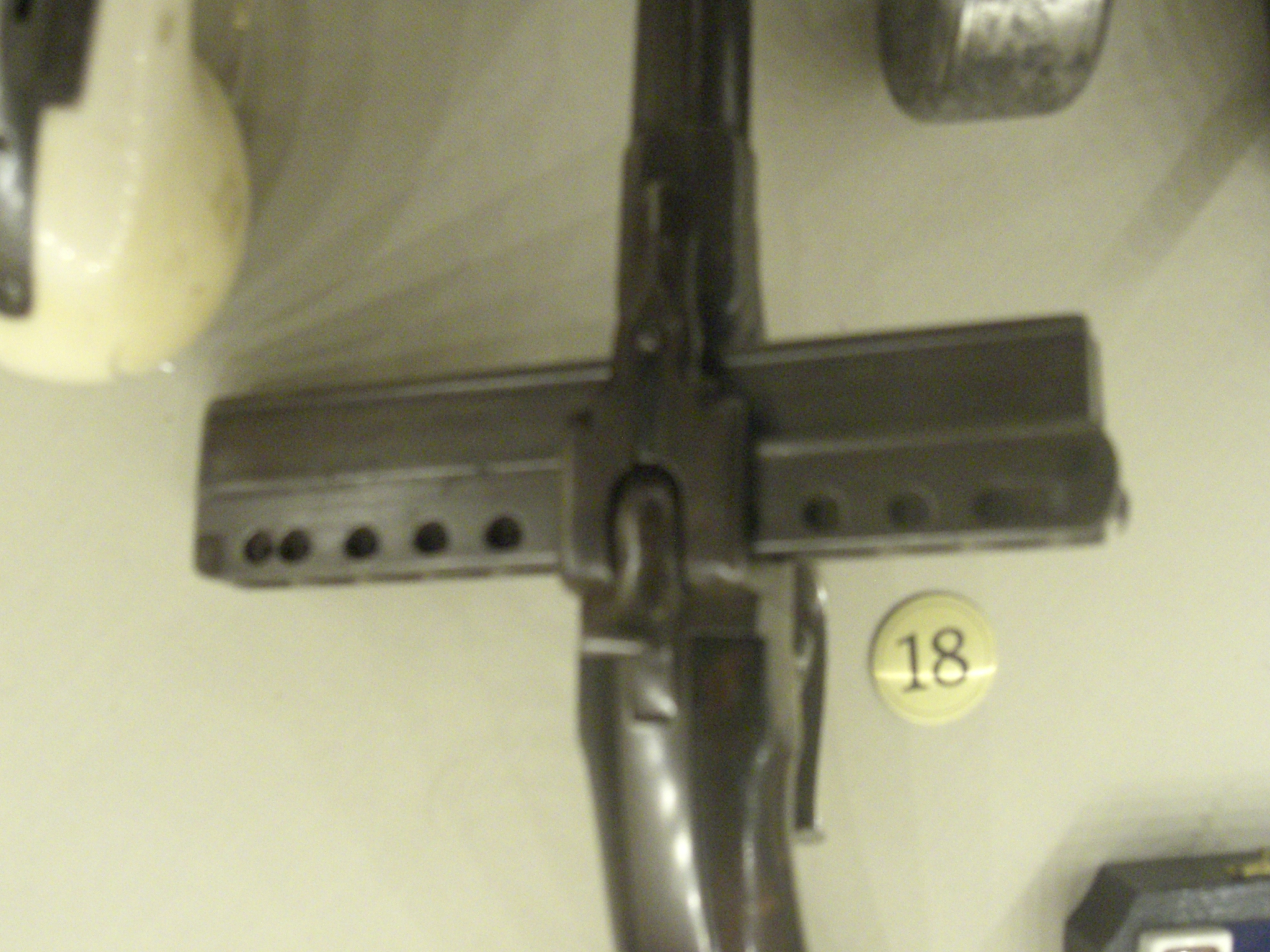 A 9 mm harmonica pistol. Taken at the National Firearms Museum